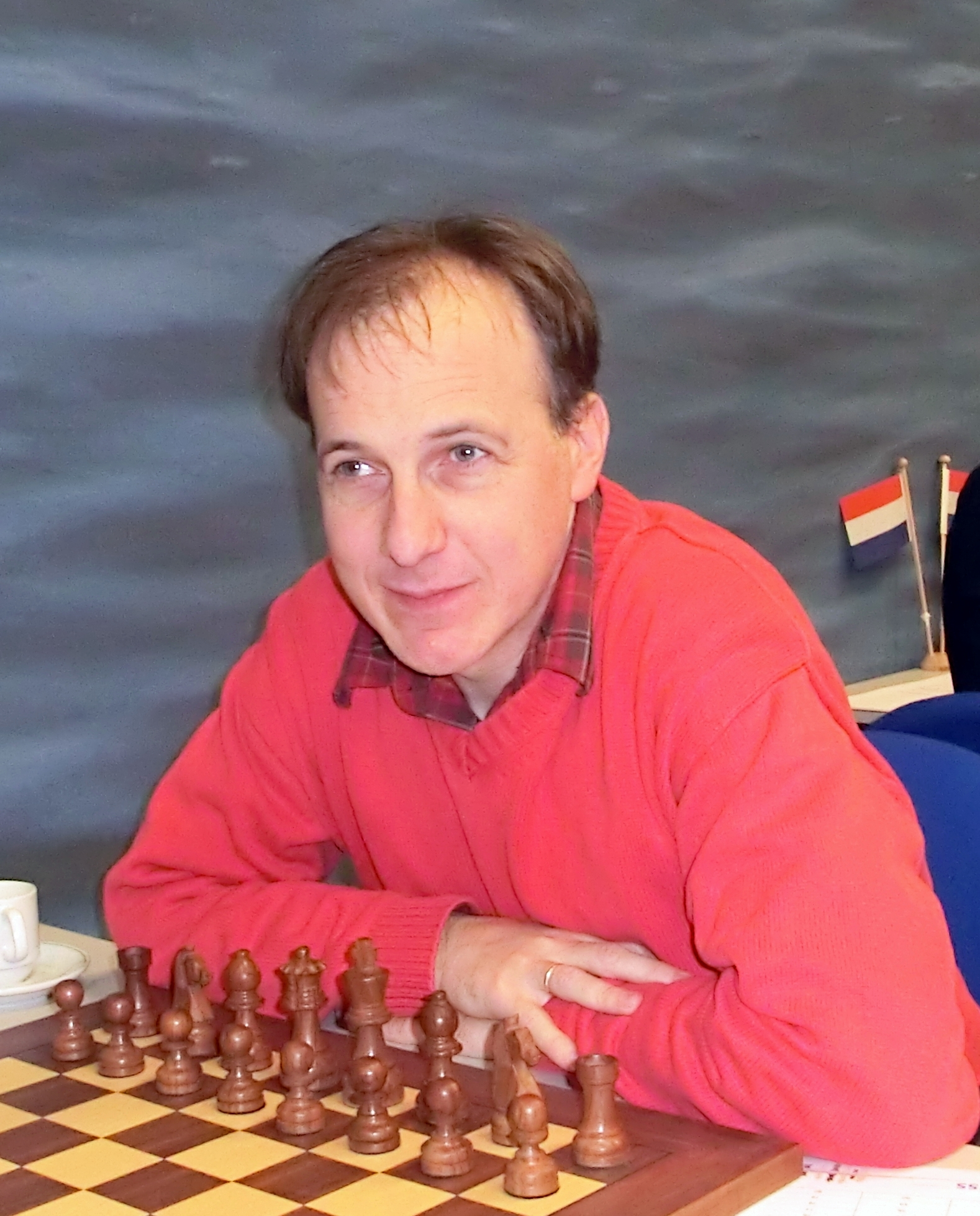 Mark van der Werf, chess player from the Netherlands